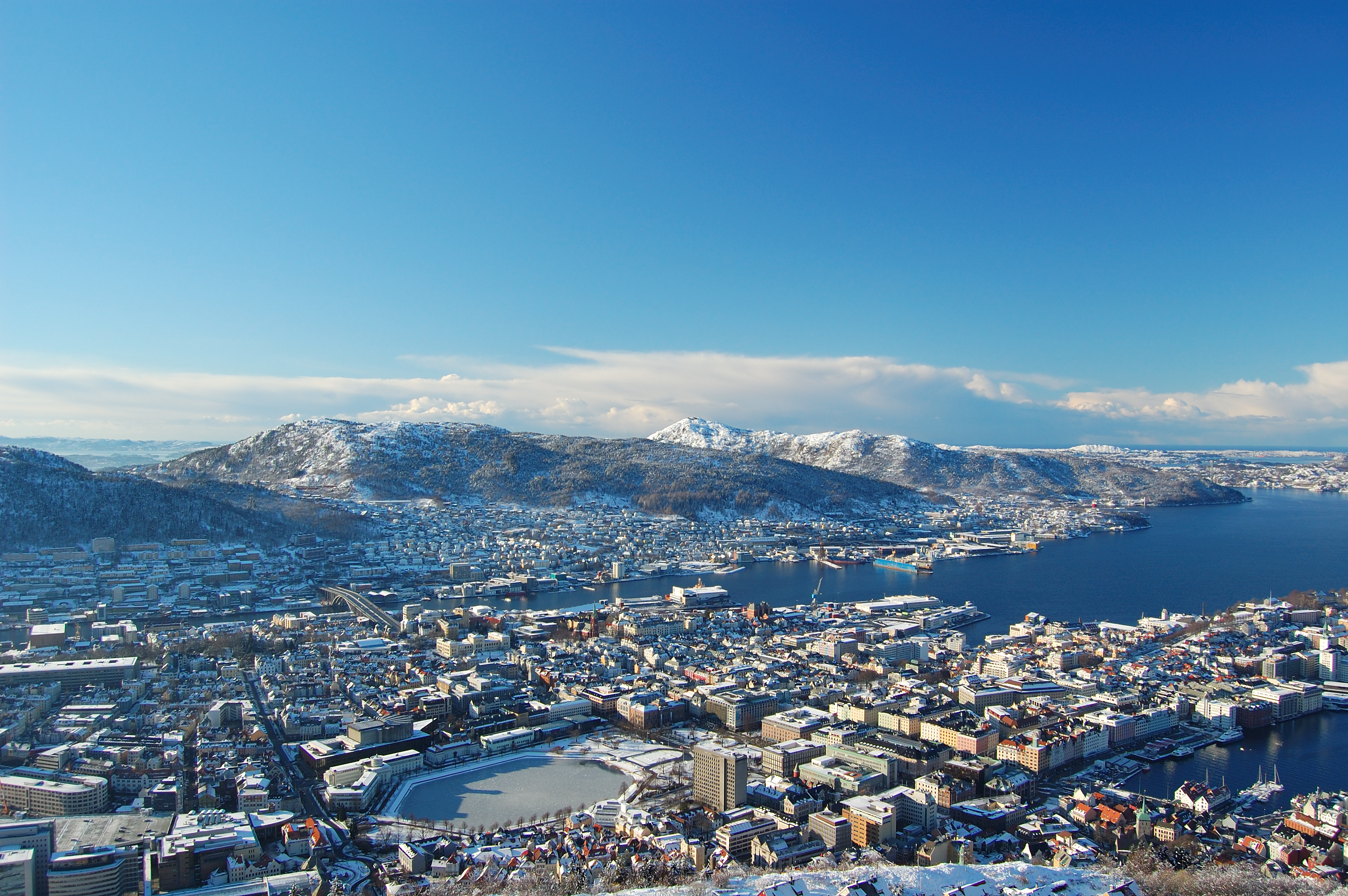 View of Bergen, Norway during winter.